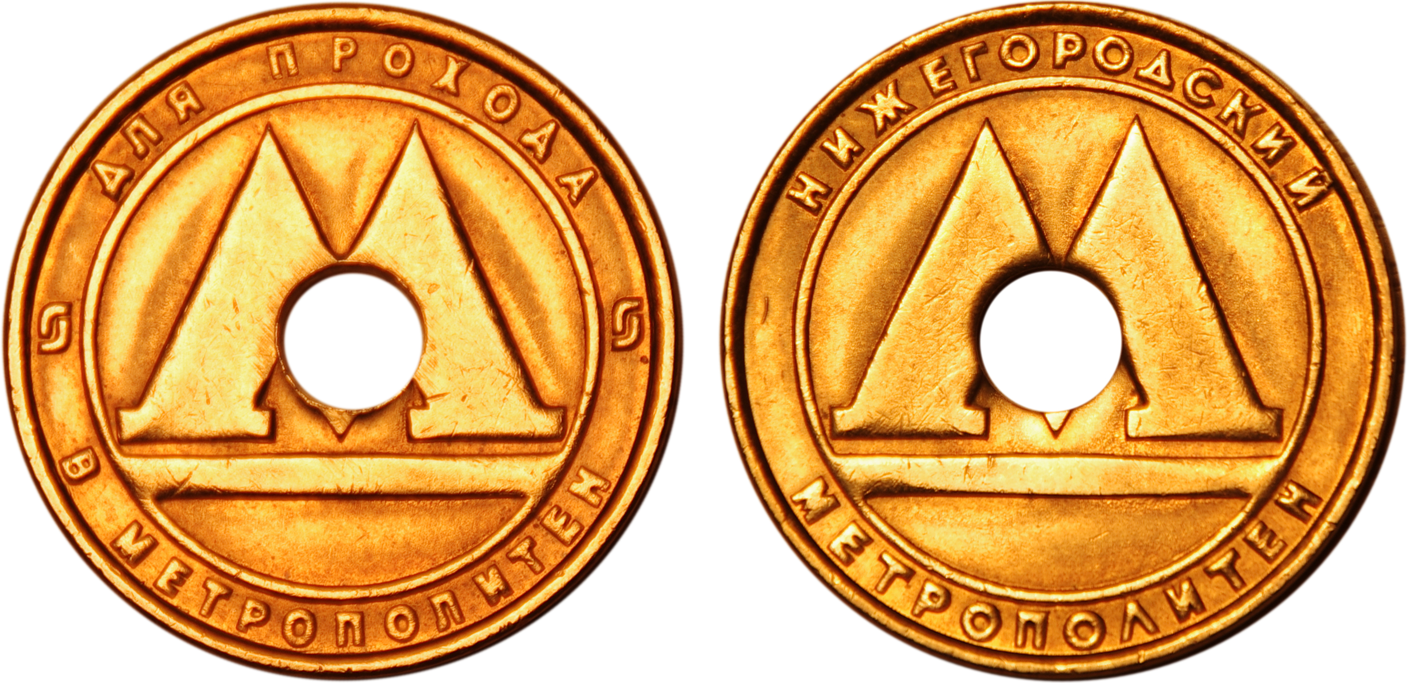 Nizhny Novgorod Metro token (after 2009)